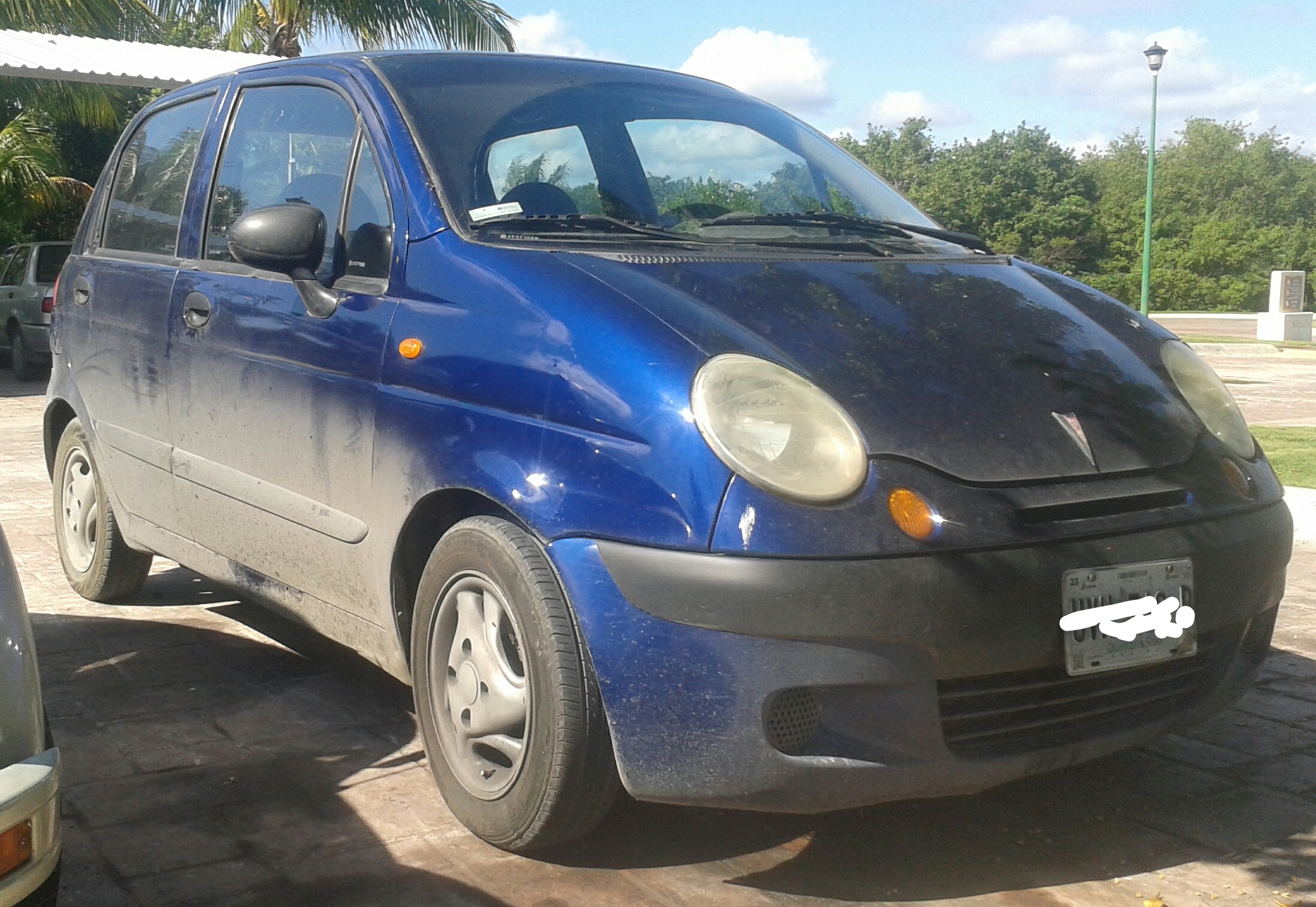 2003-2005 Pontiac Matiz photographed in Cancun, Quintana Roo, Mexico.